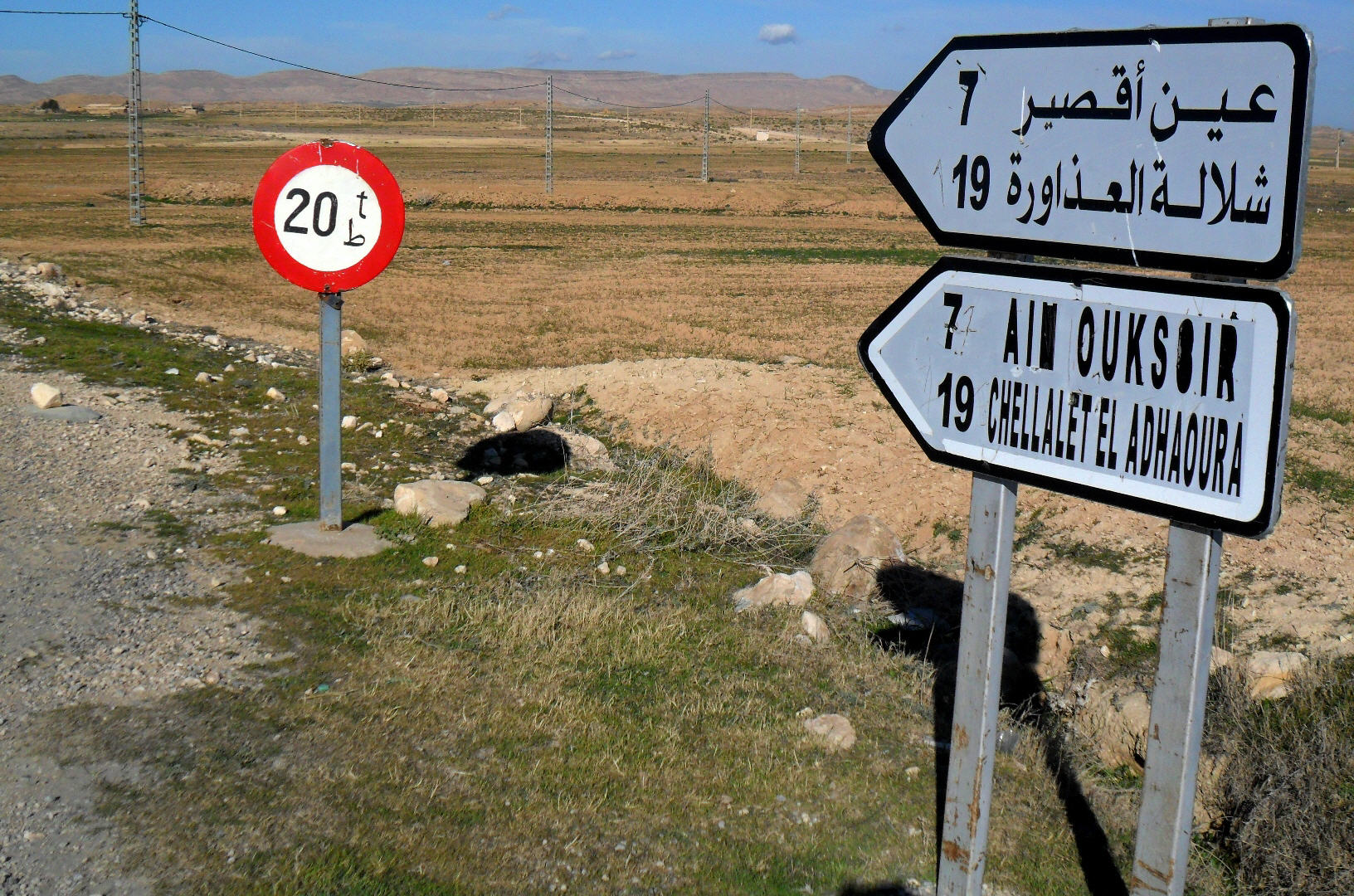 Direction Ain Ouksir عين اوقصير